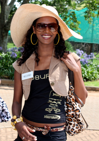 Miss Sri Lanka 2008 Rochelle Correa during Miss World 08